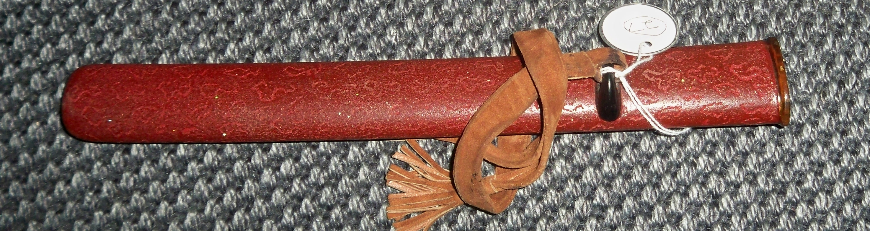 Antique Japanese tanto saya.